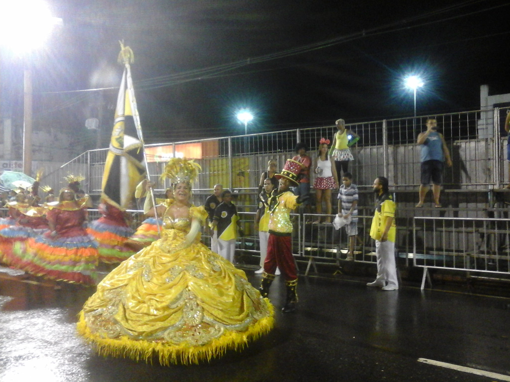 GRES Coroado de Jacarepaguá